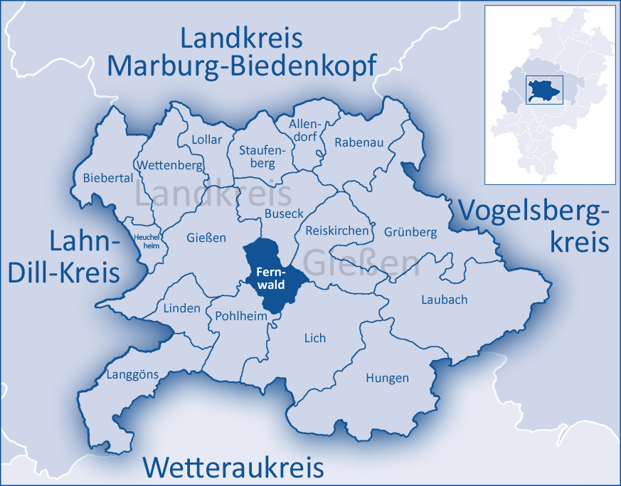 The map shows a district in the area of Gießen (district)